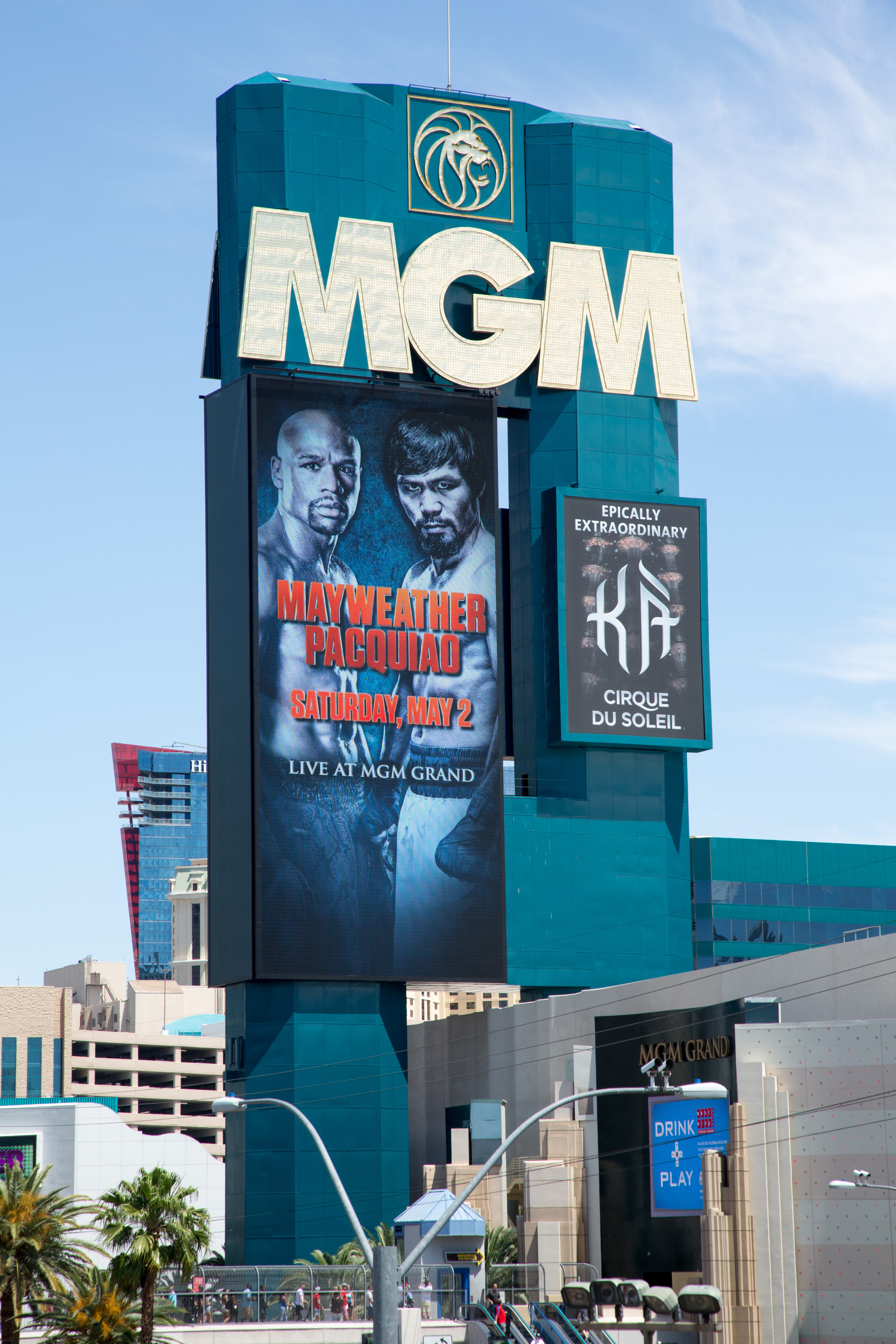 Giant electronic image billboard of Mayweather and Pacquiao